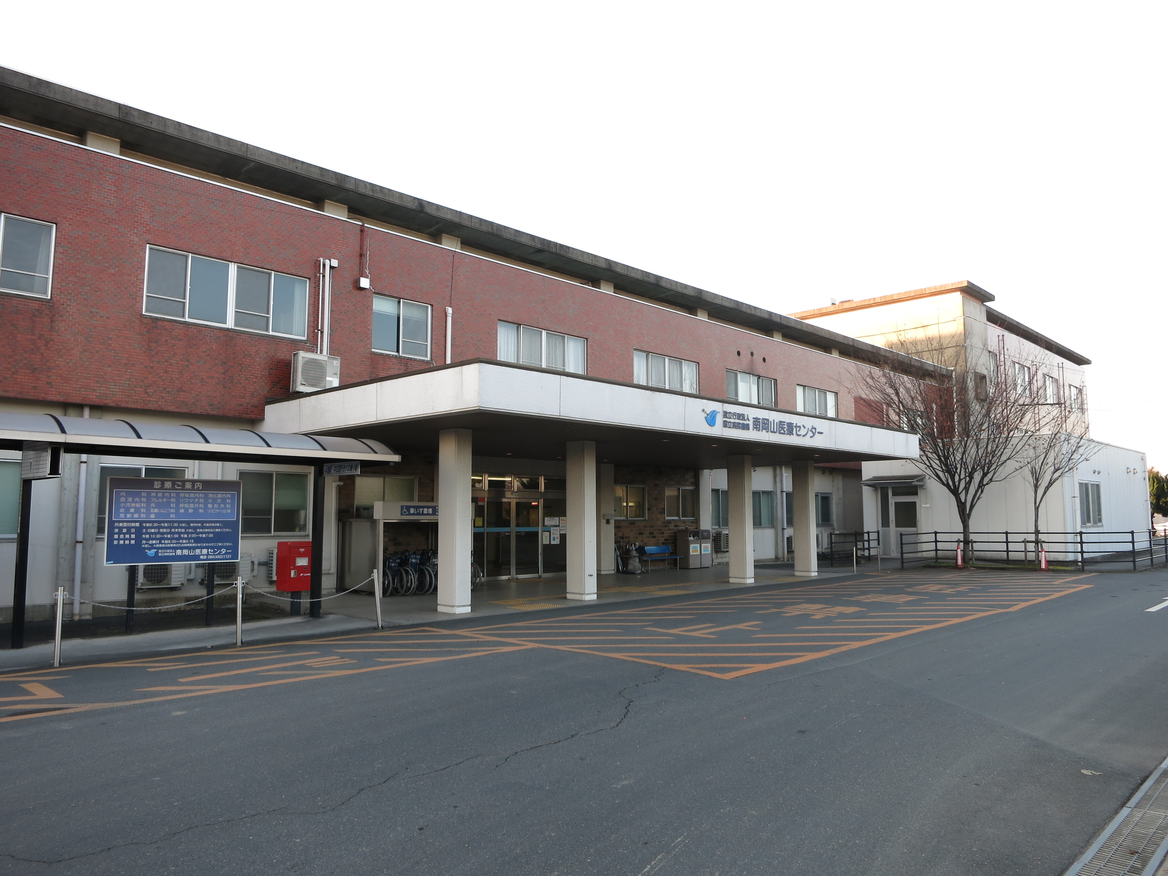 National Hospital Organization Minami-Okayama Medical Center